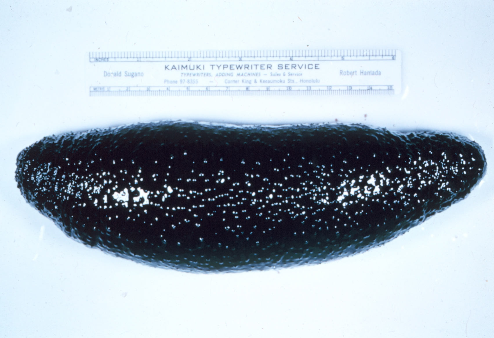 A photograph of Holothuria atra.